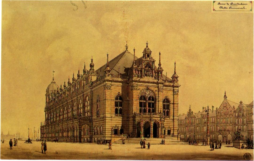 Competition design for a commodty exchange in Amsterdam. Motto: Ammerack.